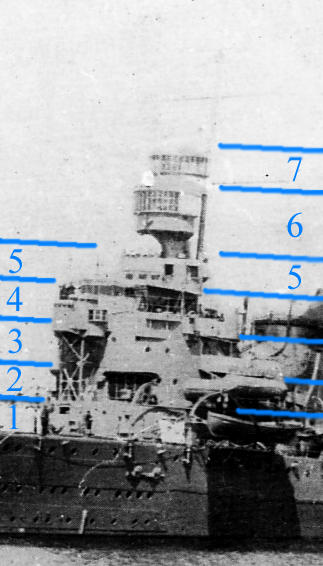 Bridge levels of heavy cruiser Furutaka shortly after commisioning. Legend: 1 - Upper deck level 2 - Lower bridge deck 3 - Upper bridge deck 4 - Compass bridge 5 - Target survey platform (sokuteki sho) 6 - Main gun command platform 7 - Main gun firing platform